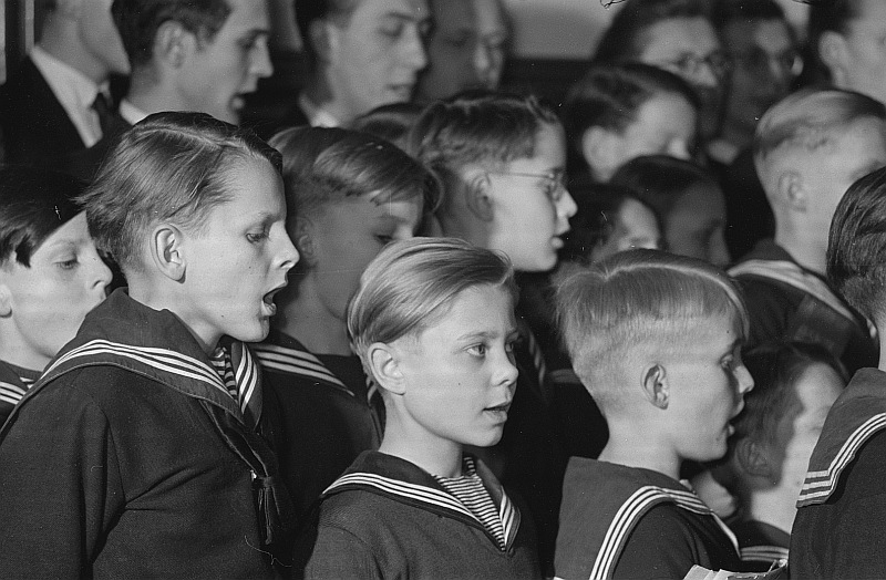 Original image description from the Deutsche Fotothek Thomanerchor